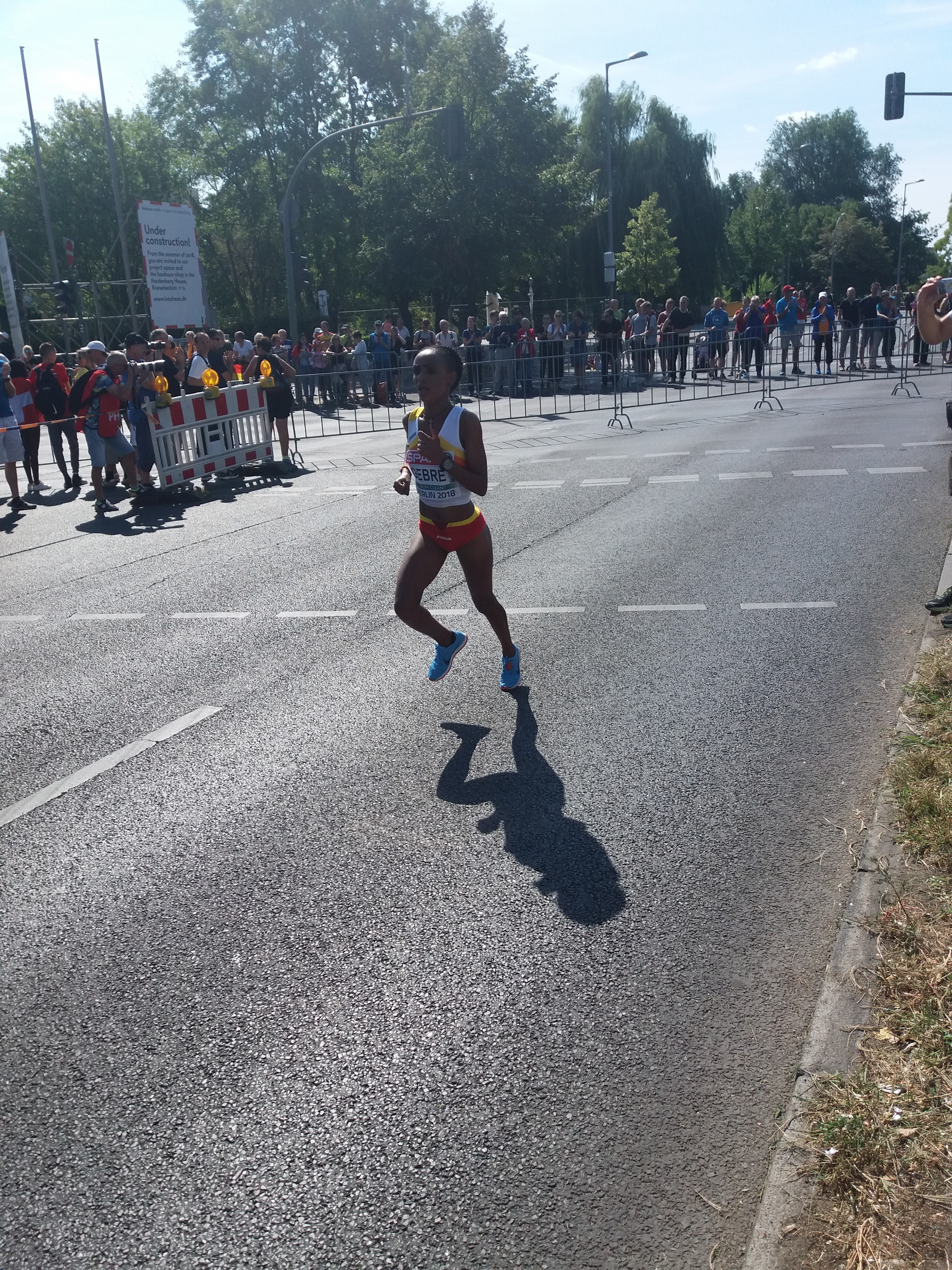 Marathon at the 2018 European Athletics Championships – Trihas Gebre